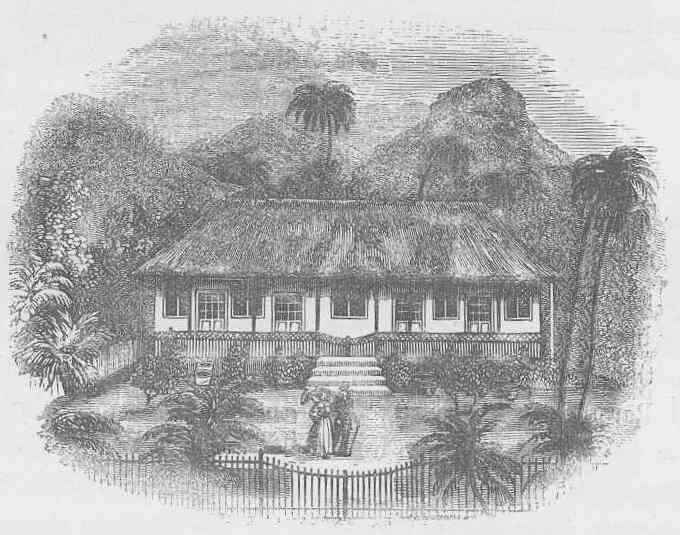 House of The Rev. John Williams, Raiatea (LMS, 1869, p.37)